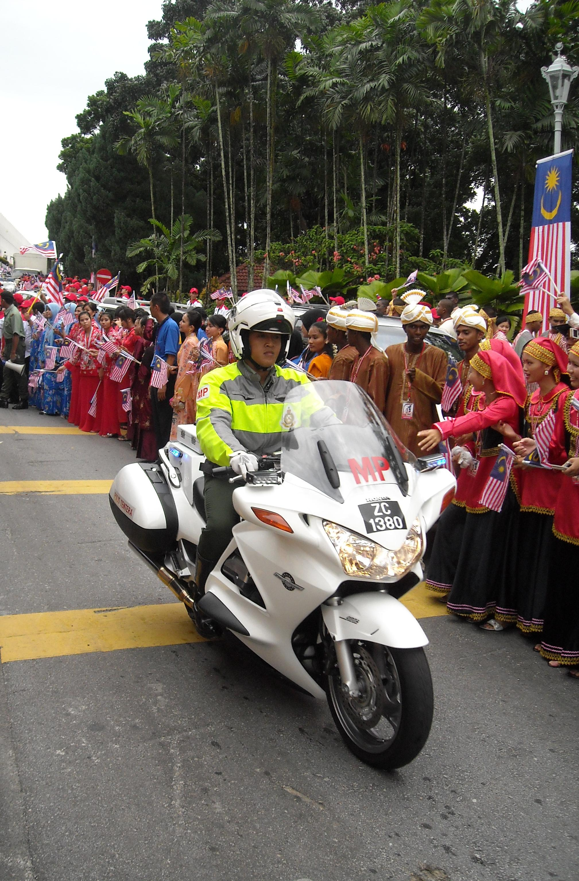 Just like the Traffic Police officers, the Royal Military Police Corps also has the Honda ST1300 motorbike to patrol at the military camp. Taken by me at exit gate of Parliament Square during the 52nd Independence Day Parade.